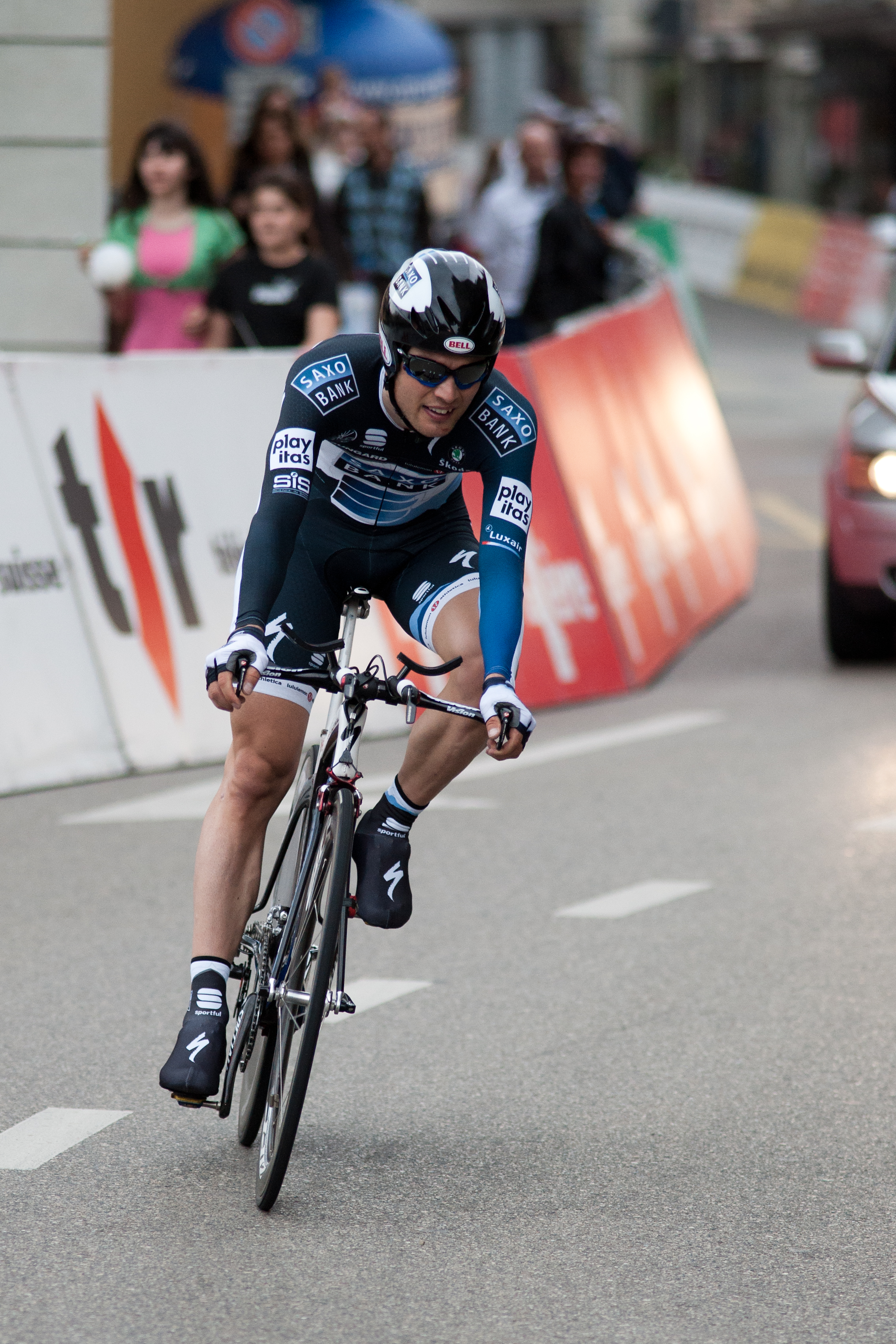 Anders Lund during the 3rd stage of the Tour de Romandie 2010.